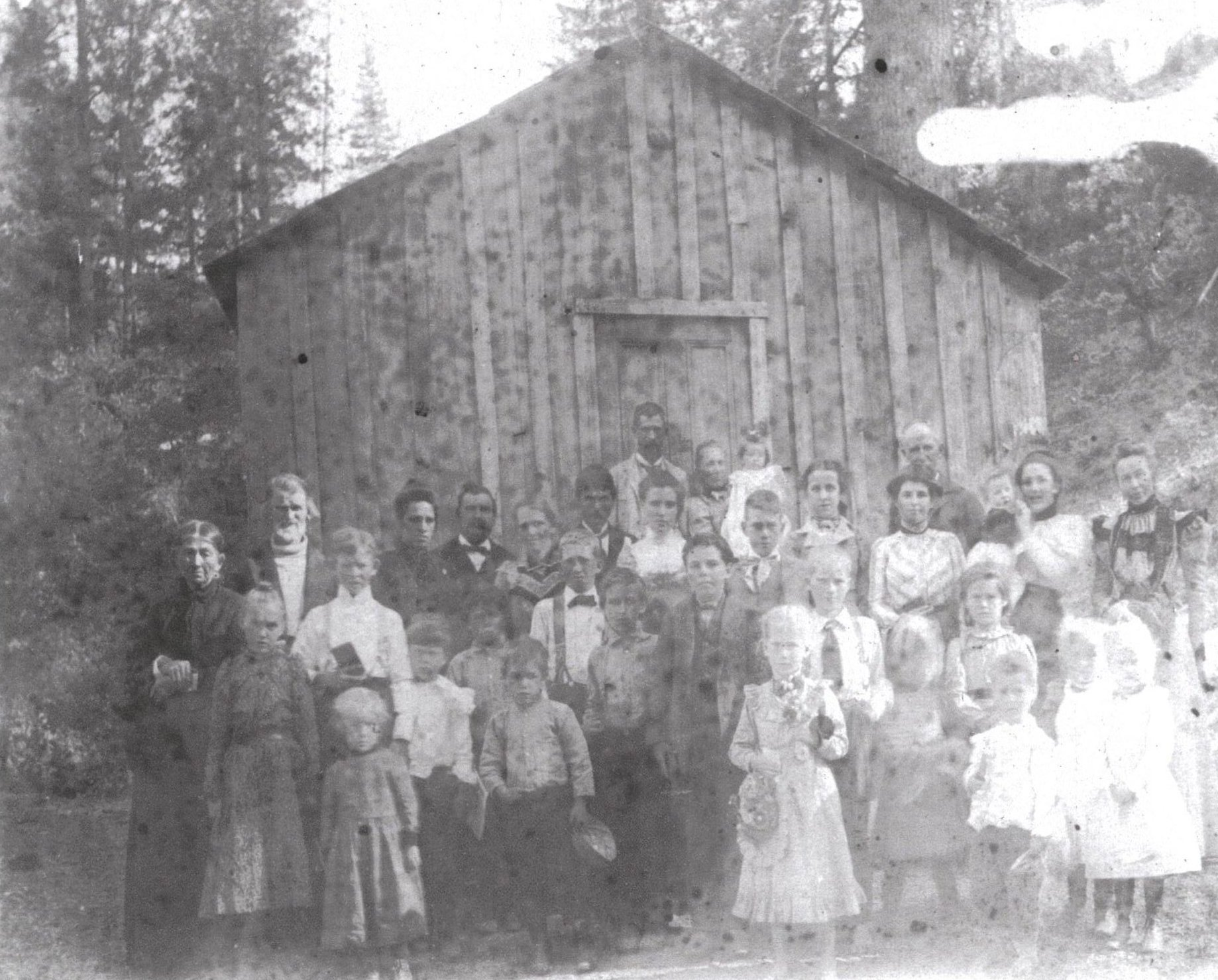 First Twin Valley School, Crabtree Hot Springs, Mendocino National Forest, Lake County, California. John Fletcher Crabtree and Elizabeth Davis Crabtree are the older adults to the left.